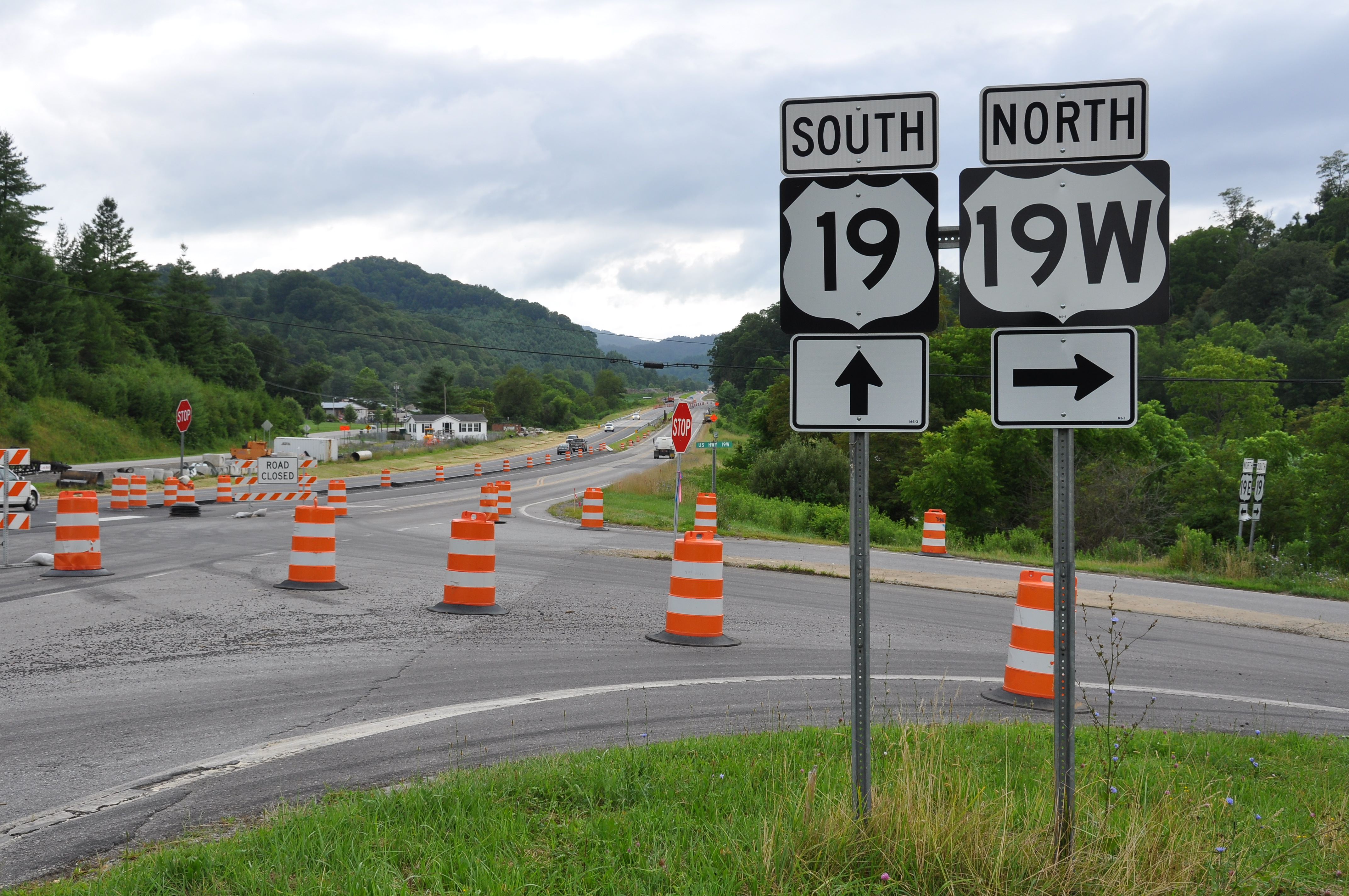 At the intersection where U.S. Route 19E meets with U.S. Route 19 and U.S. Route 19W, in Cane River, North Carolina. At the time of the picture, the main highway was under construction.